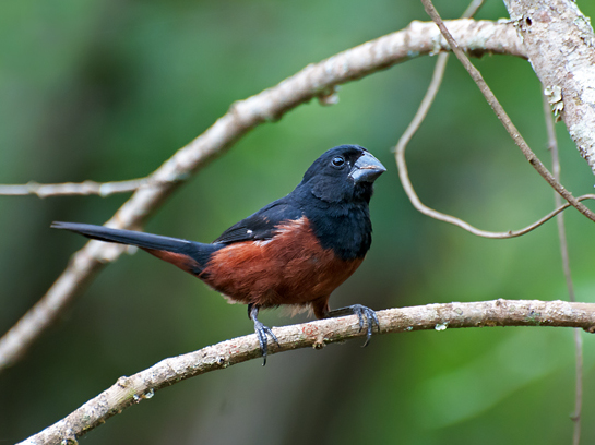 A Chestnut-bellied Seed Finch in Piraju, São Paulo, Brazil.